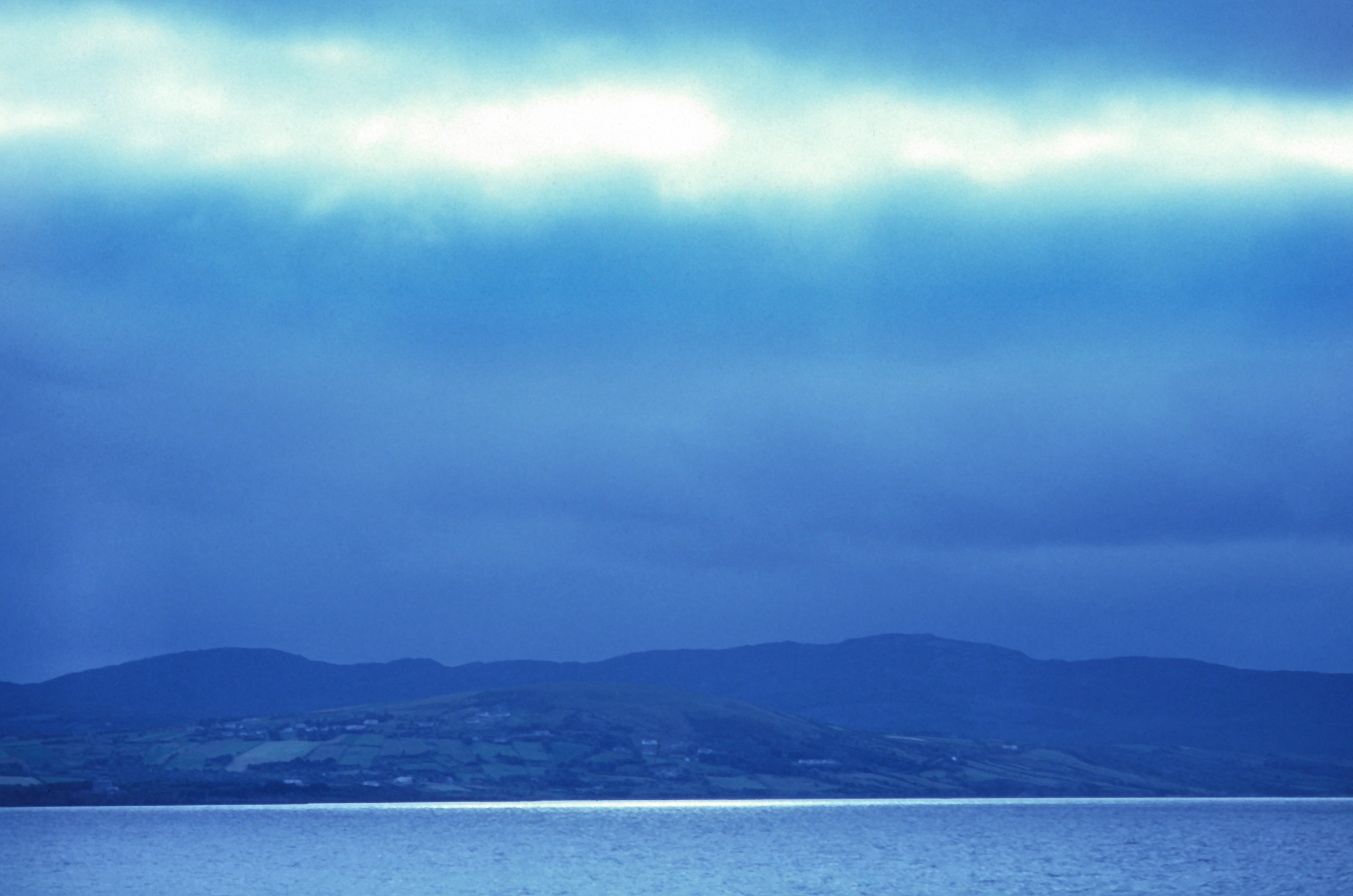 Foggy landscape of Lough Swilly, June 1992.